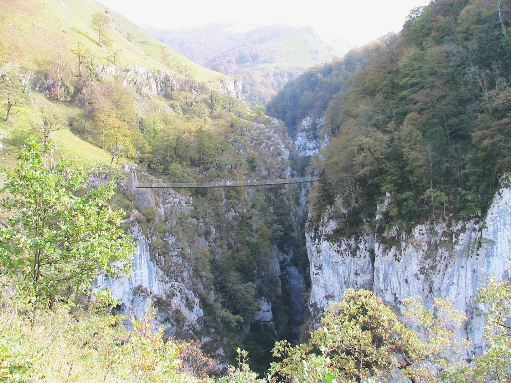 Footbridge of Holzarte, Larrau, 64, France.